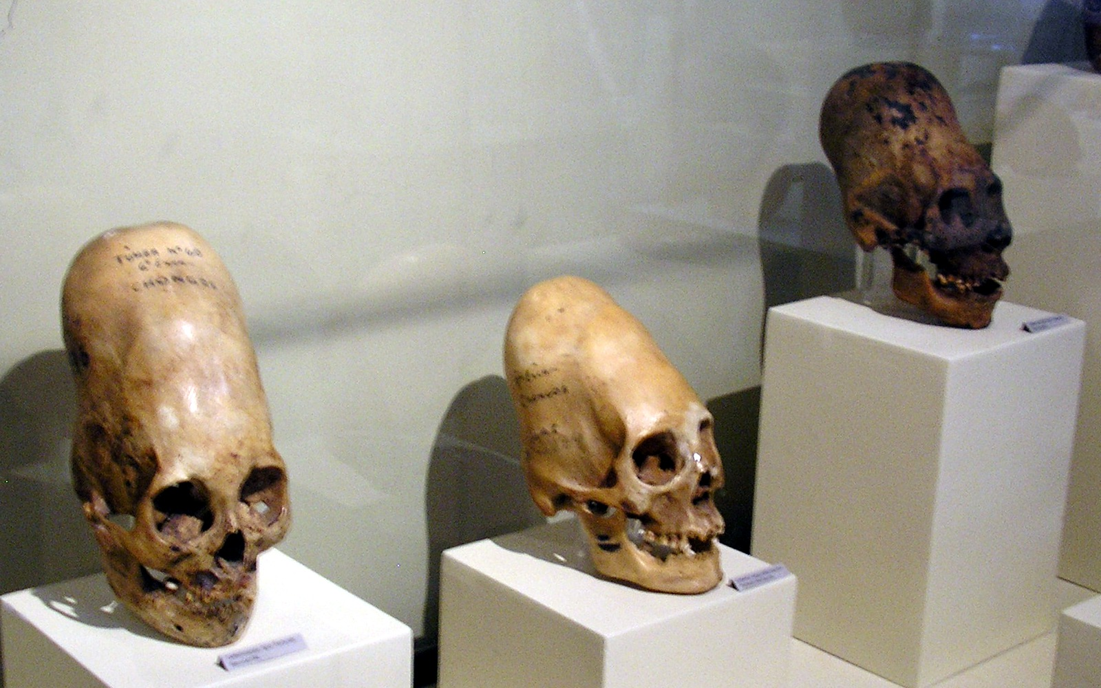 These skulls are on display at Museo Regional de Ica in the city of Ica in Peru. They are related to the Paracas Textiles